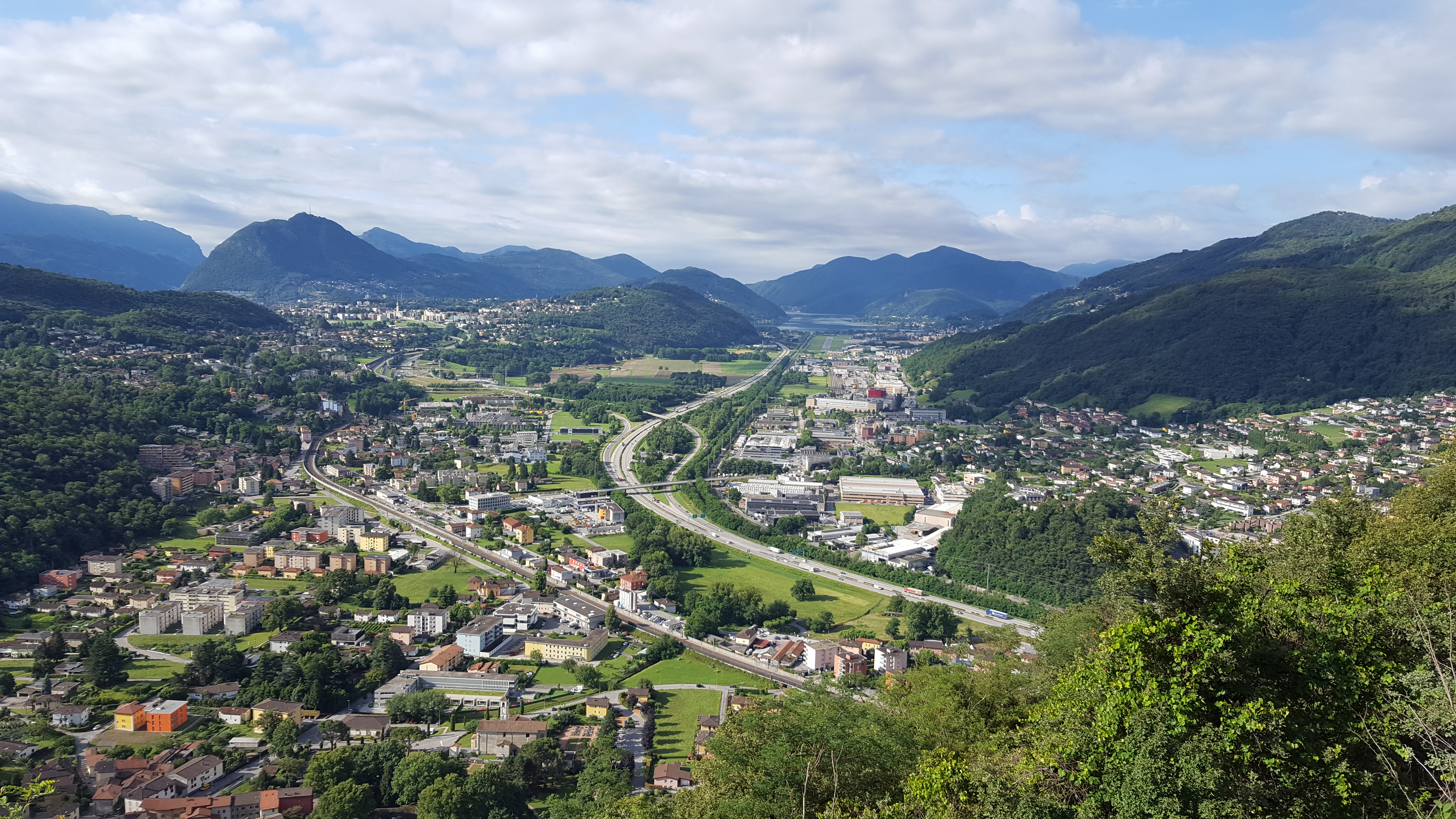 Lamone, Manno, Bioggio, Agno and Massagno, picture taken from San Zeno (Lamone, Ticino, Switzerland)